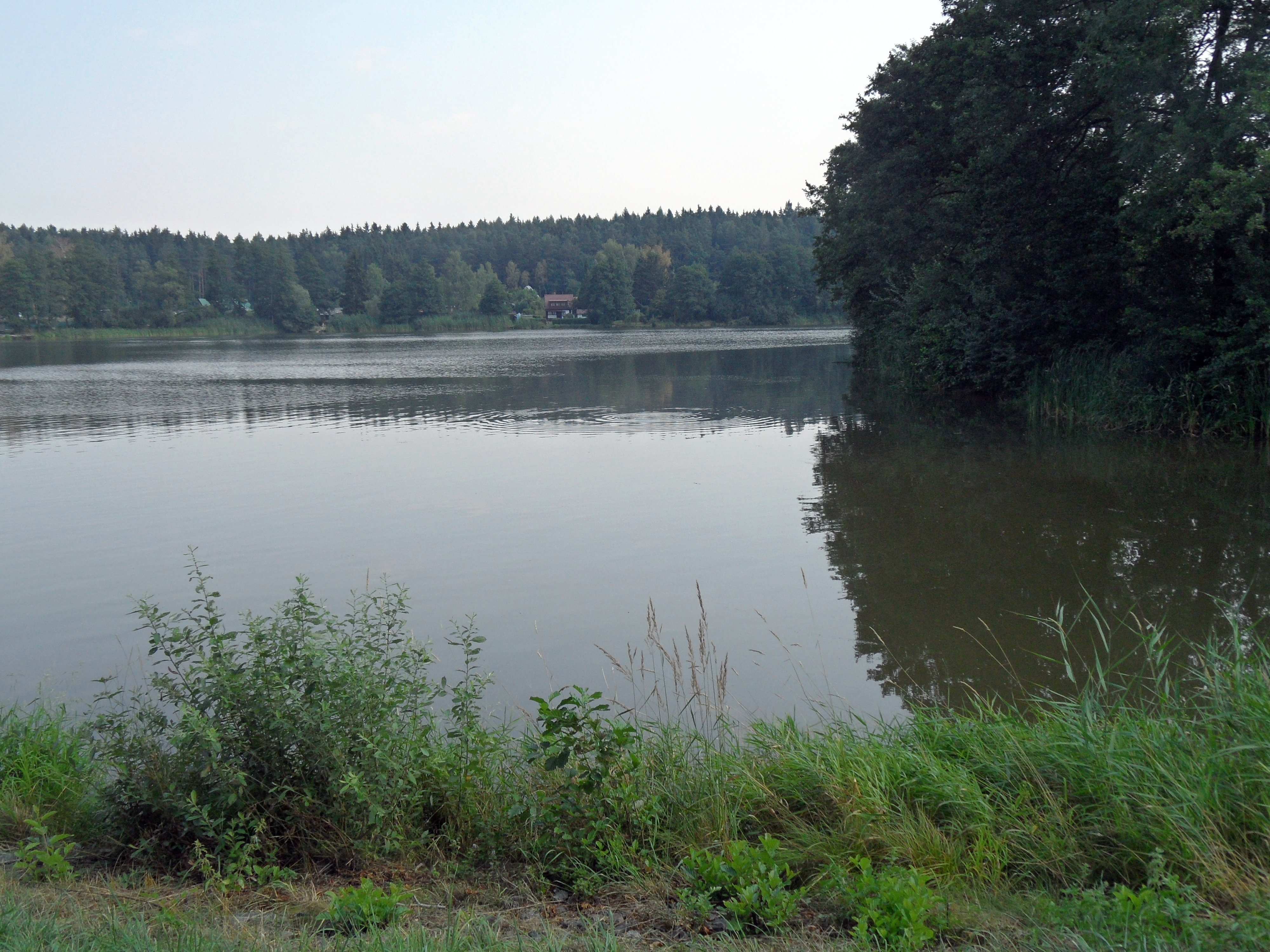 Starý rybník (Zbraslavice) A. View from the Dam to Northern and Eastern Bank of the Pond. Kutná Hora District, the Czech Republic.